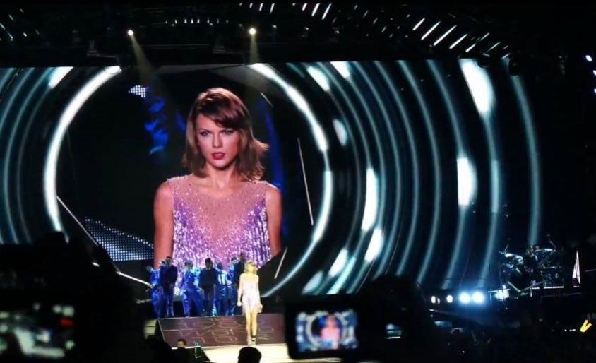 Taylor Swift - 1989 Tour Singapore - Style